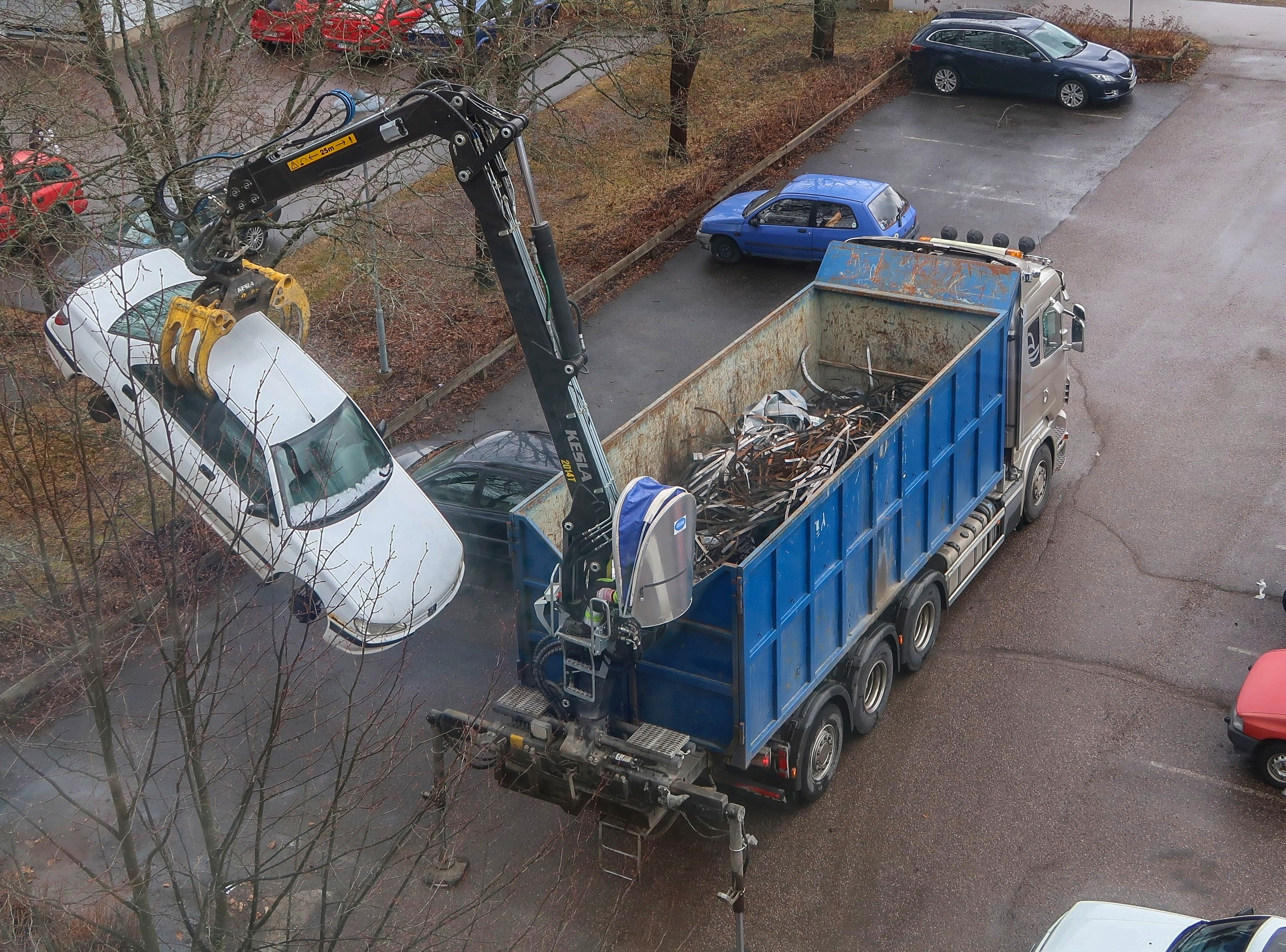 Unhappy carwreck is transported from home parking lot to metal waste collection point. (Finland)